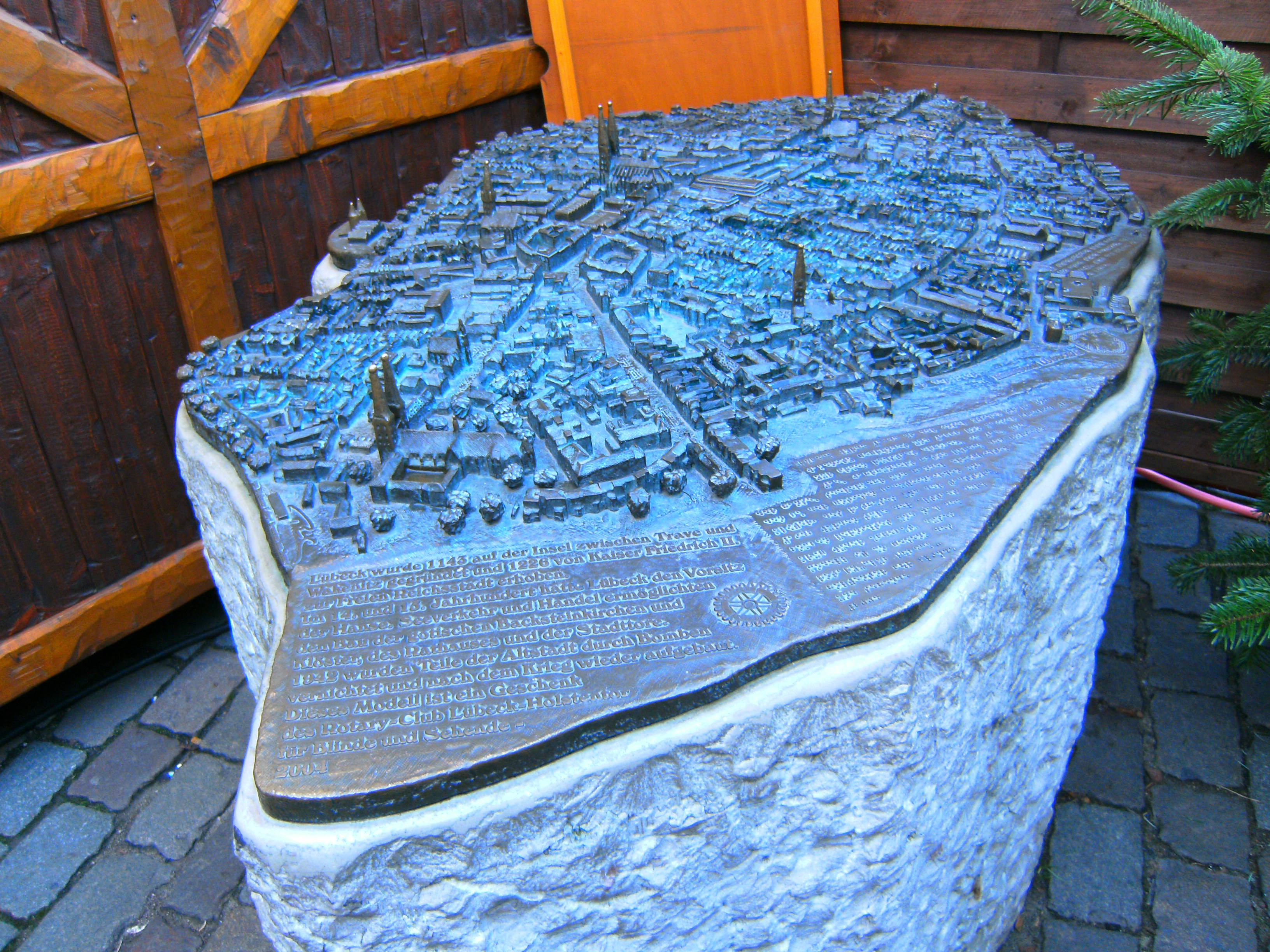 High relief of the City of Lübeck on the market square of Lübeck, Germany, for blind people and tourists.